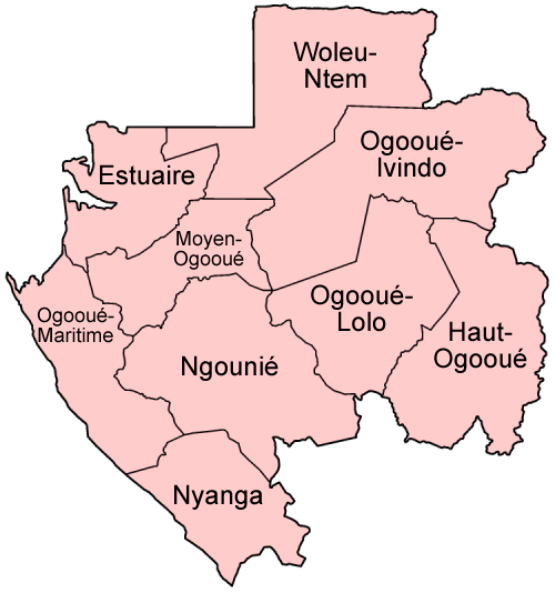 Map of the provinces of Gabon, named. Made by User:Golbez.